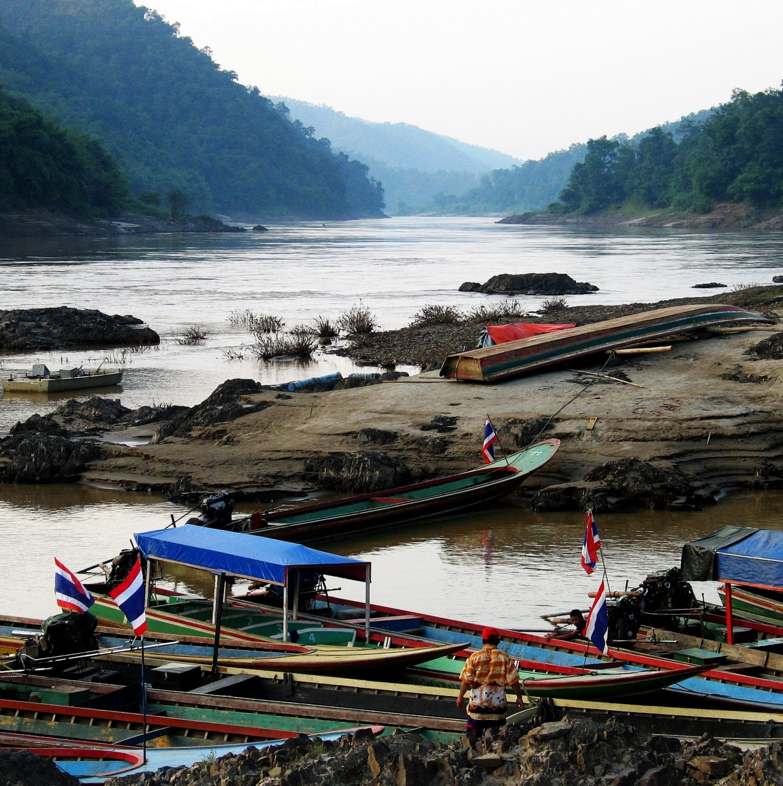 The Salawin river (a.k.a. the Nujiang river in China) at the border village of Mae Sam Laep. Myanmar is on the left bank